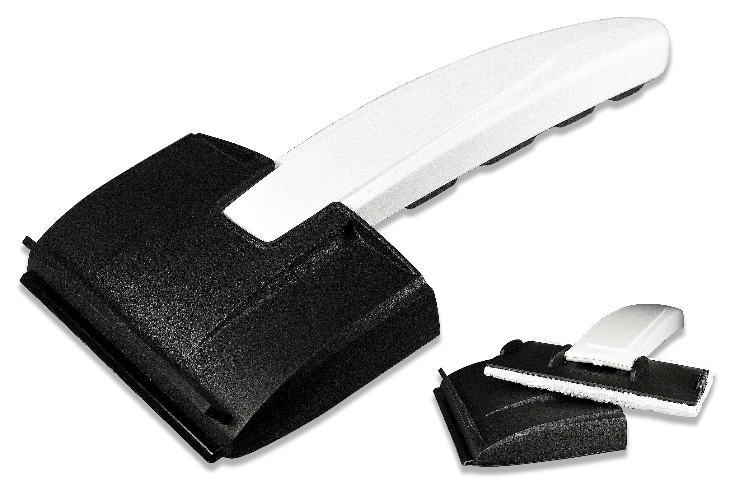 ice scraper VISTA CarWindowCleaner